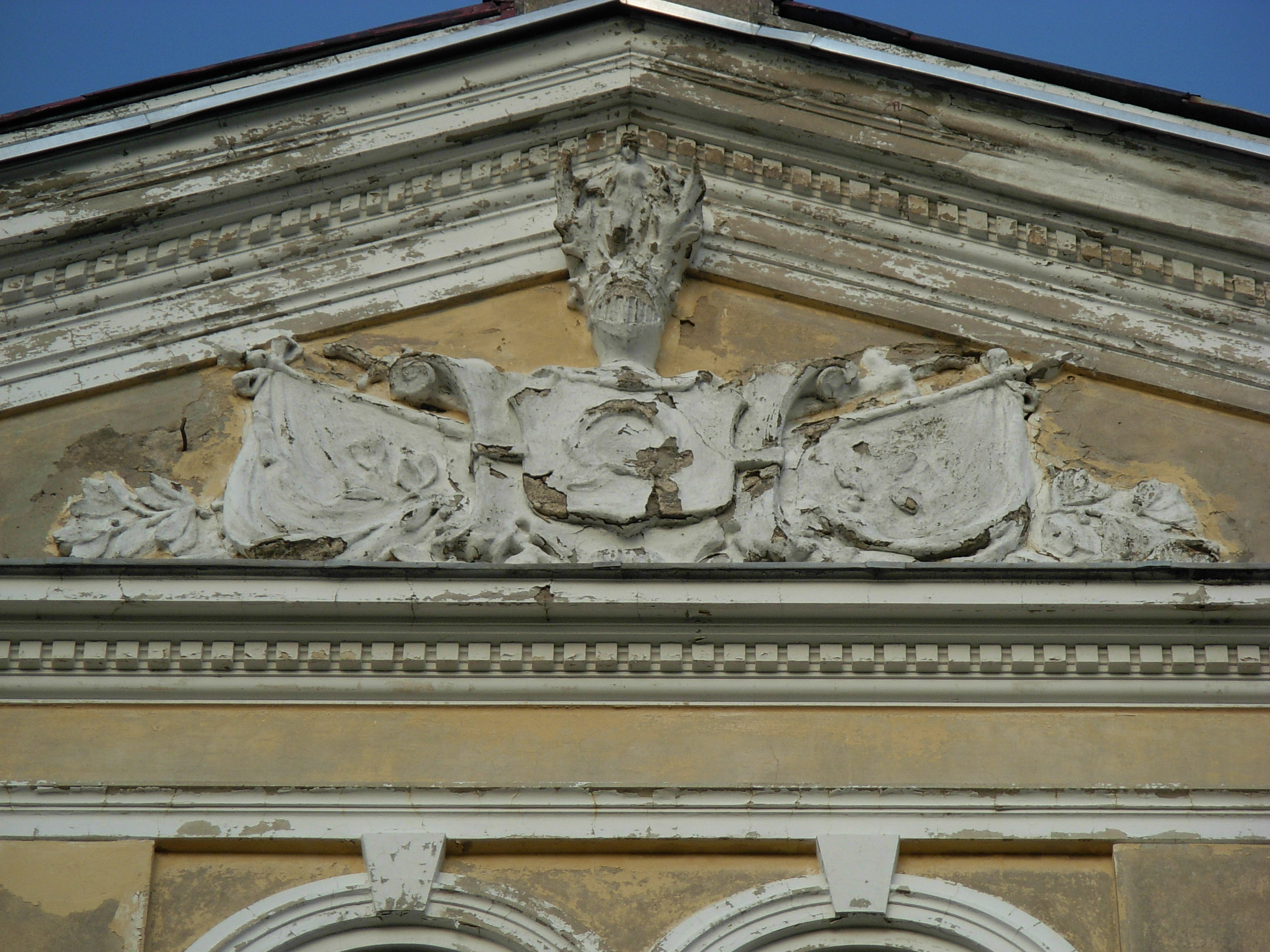 Description Złoty Potok DateJuly 2007SourceOwn workAuthorUser:Piotrus Złoty Potok